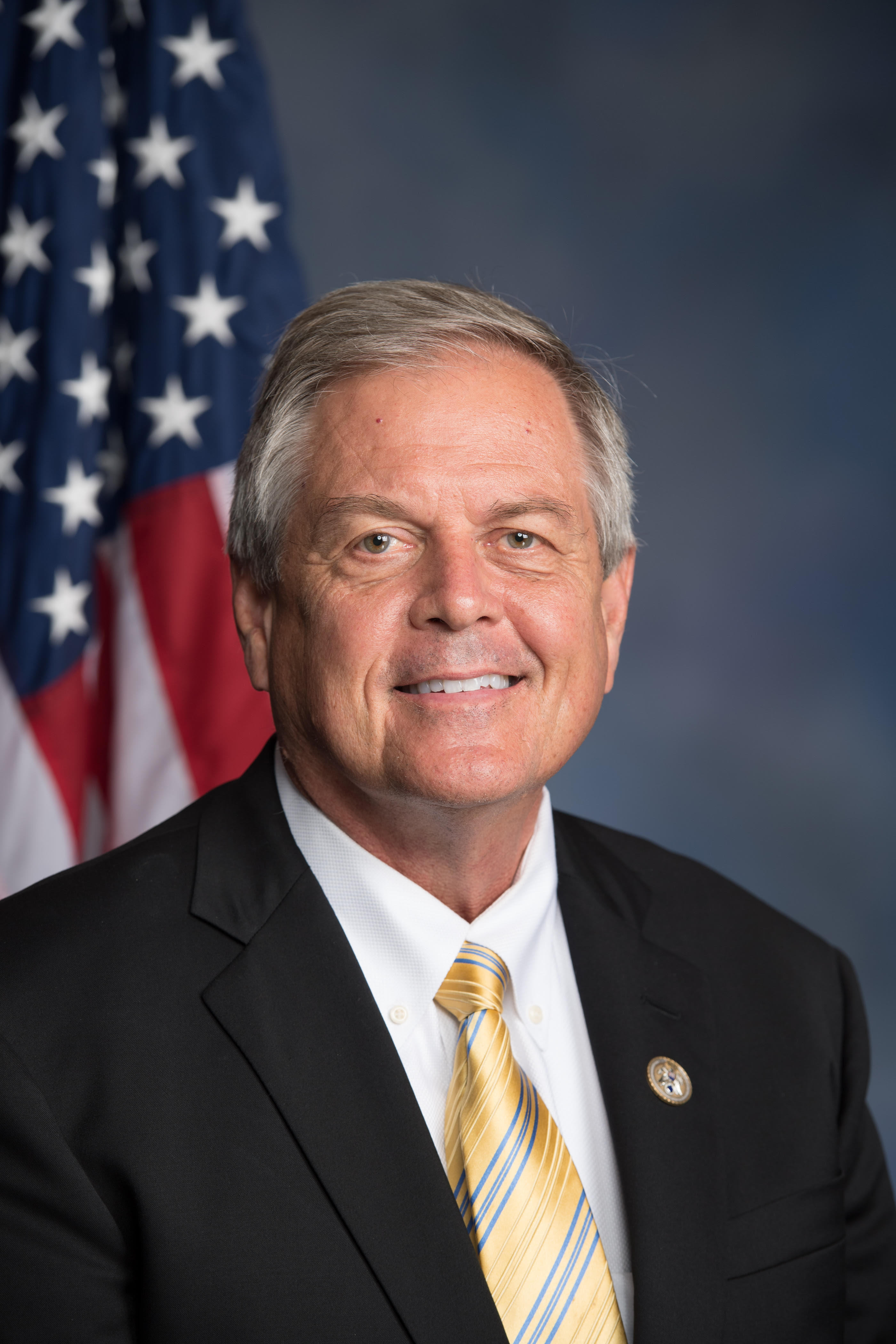 Ralph Norman official freshman portrait